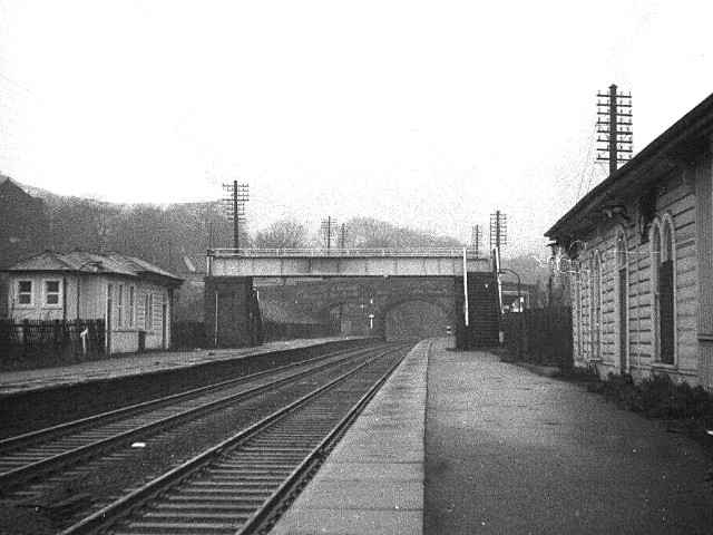 The original Midland Railway station buildings at Dronfield. Looking toward Sheffield with Lea Road bridge in the background. The buildings on both platforms were demolished in June 1973.